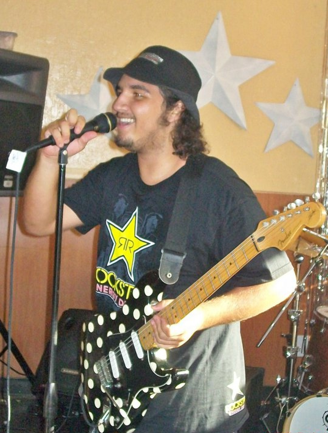 Reggie Sears is seen here performing live